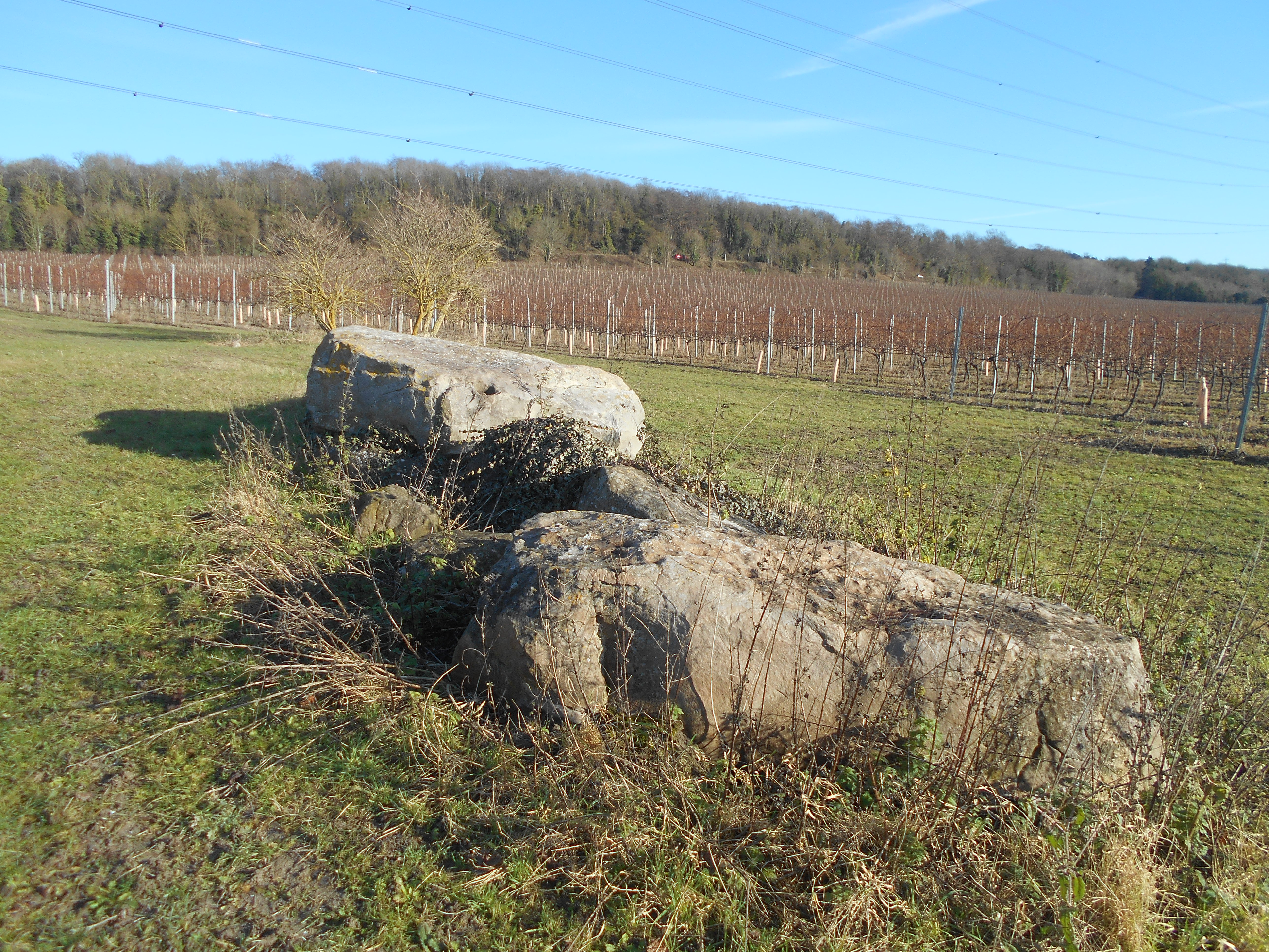 The Coffin Stone, in a vineyard near Blue Bell Hill in Kent, England. Sarsten stones possibly moved from a former neolithic burial chamber nearby.